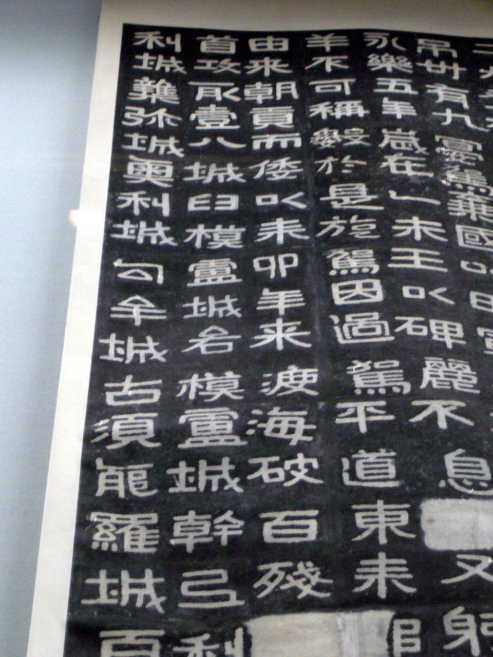 A part of a copy with ink of Gwanggaeto Stele.